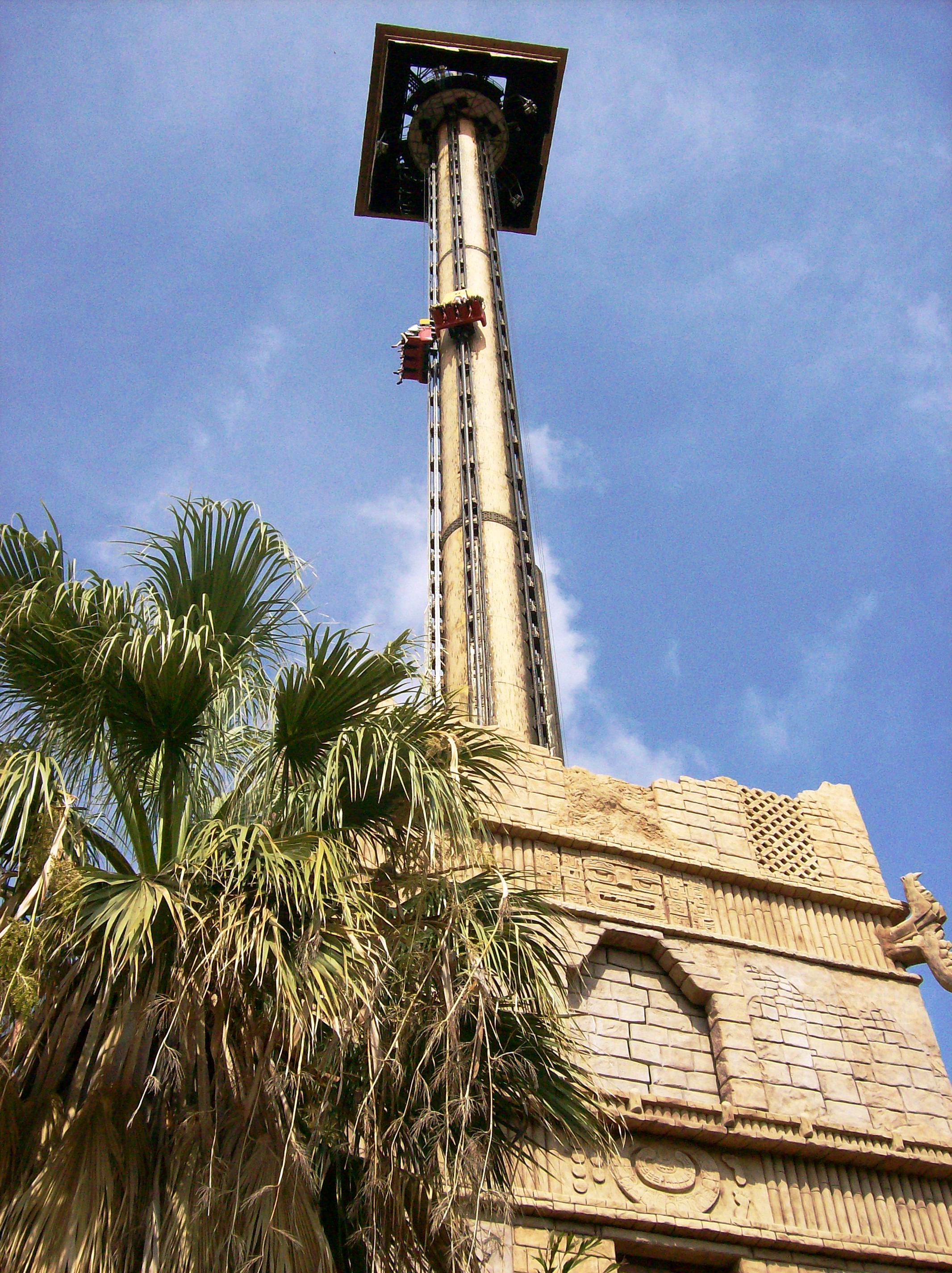 The Hurakan Condor drop tower ride